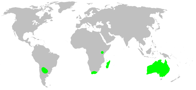 Gallieniellidae habitat distribution, drawn after Platnick: World Spider Catalog 7.0. This is not at all a precise rendering of the distribution! If you have better information, please replace this map, or send me the info, and i will redraw it.